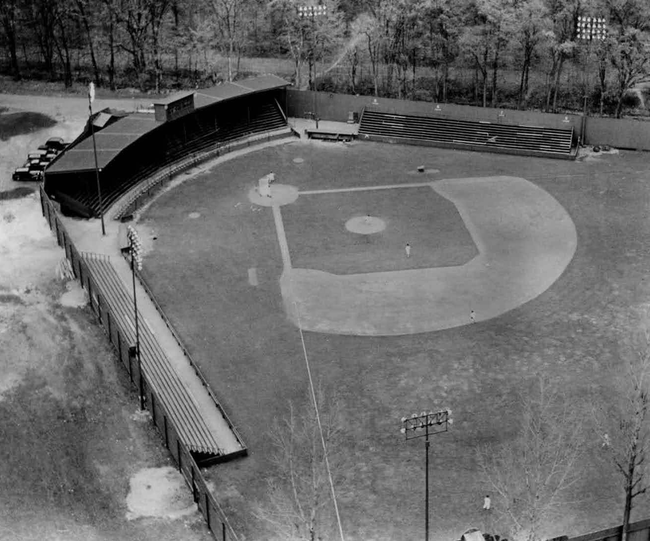 Shuttleworth Park in Amsterdam, New York during a youth baseball tournament in 1955.